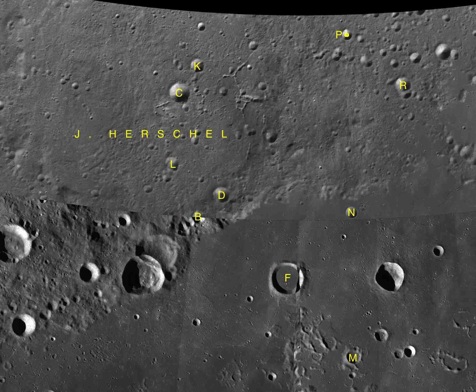 Part of the chart LAC-11 used for the presentation